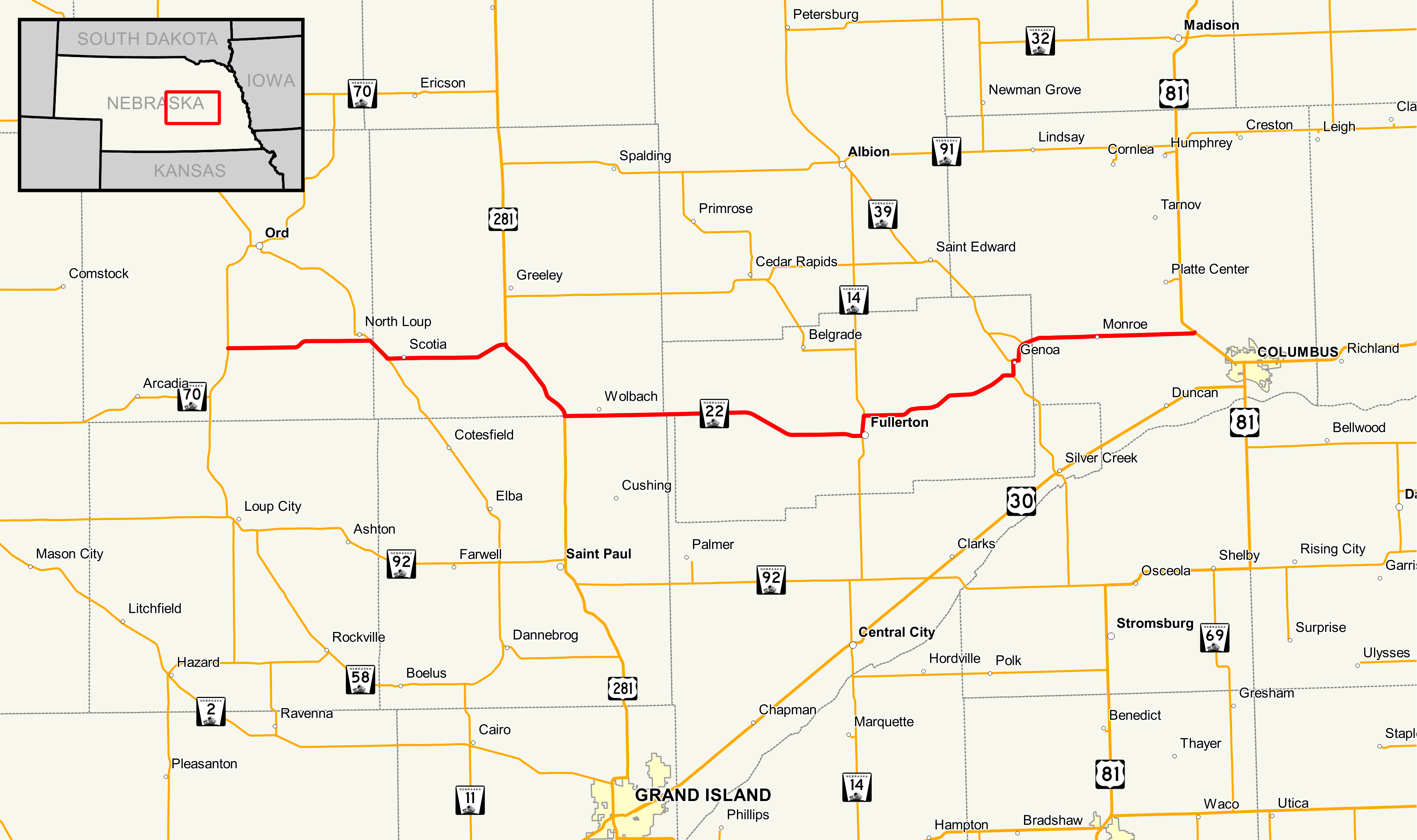 Map of Nebraska Highway 22 Data Sources: Nebraska Highways - - Dec 2016 Nebraska County Boundaries - - Dec 2016 Nebraska City Boundaries - - Dec 2016 This PNG graphic was created with QGIS